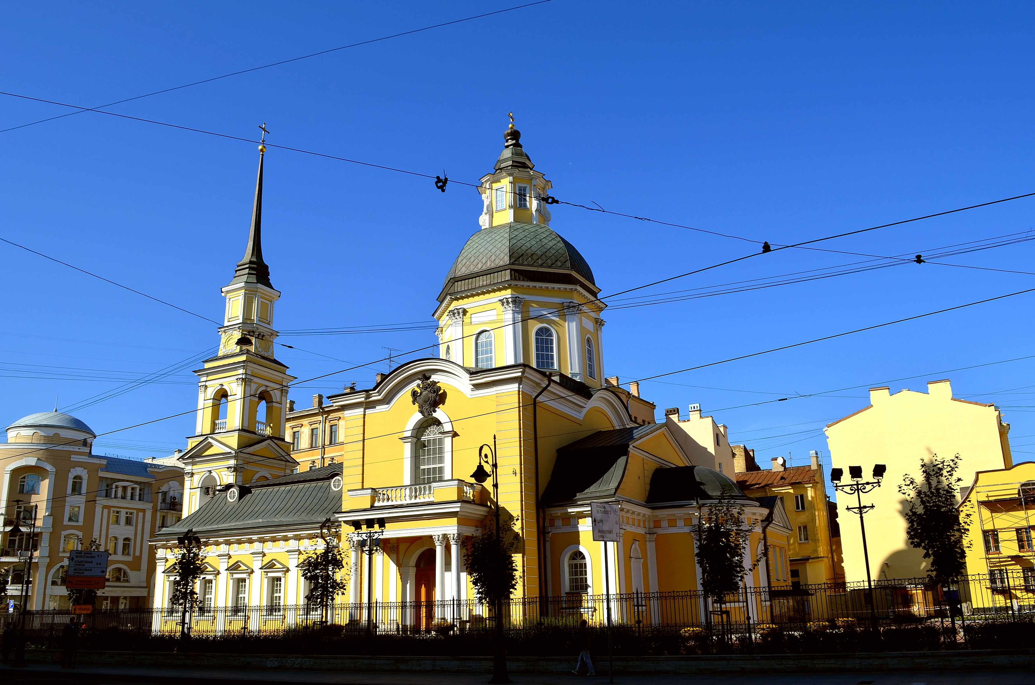 Church Street Mokhovaya, 48, Belinsky Street, 4, Central District, Saint Petersburg